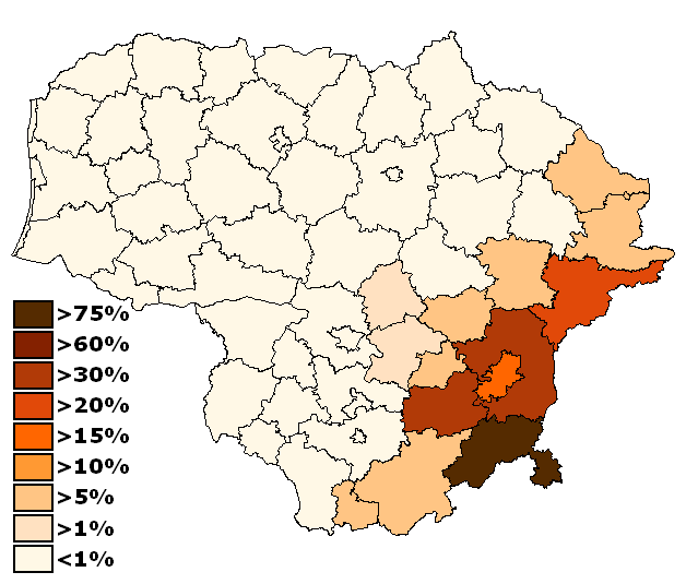 Polish minority in Lithuania - % by municipalities